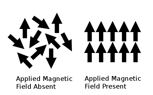 This is a diagram showing the magnetic moments for a paramagnetic material. The magnetic moments are disordered when a magnetic field is absent and ordered when a magnetic field is applied.